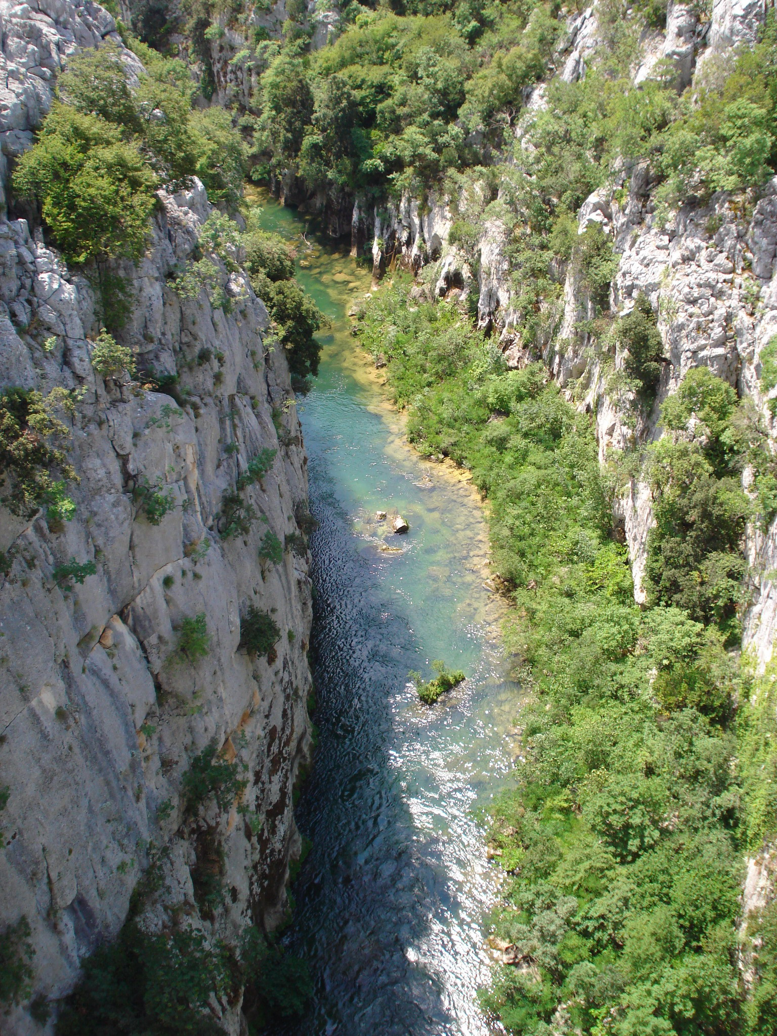 Cetina River at Šestanovac (Croatia)